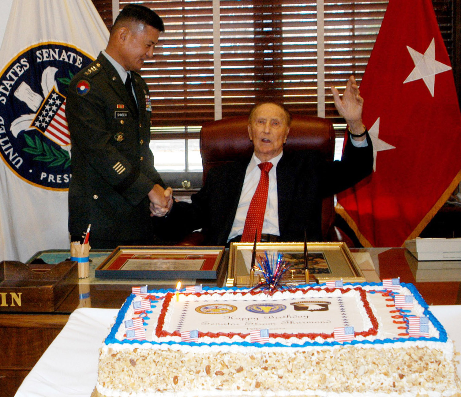 Army Chief of Staff Eric Shinseki thanks Senator Strom Thurmond for his service to the country during his 100th birthday celebration. Shinseki joined Thomas White in wishing the Senator happy birthday in a ceremony at his office on Capitol Hill Dec. 4. (Photo by Jermone Howard)